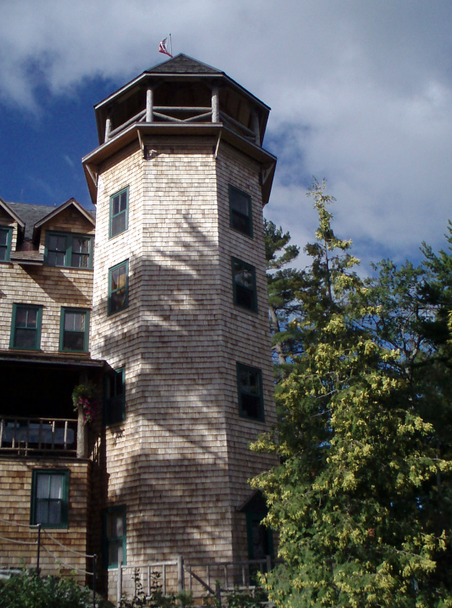 Picture of the iconic 5-story tower of The Ojibway Club, on Ojibway island, near Pointe au Baril, Ontario.